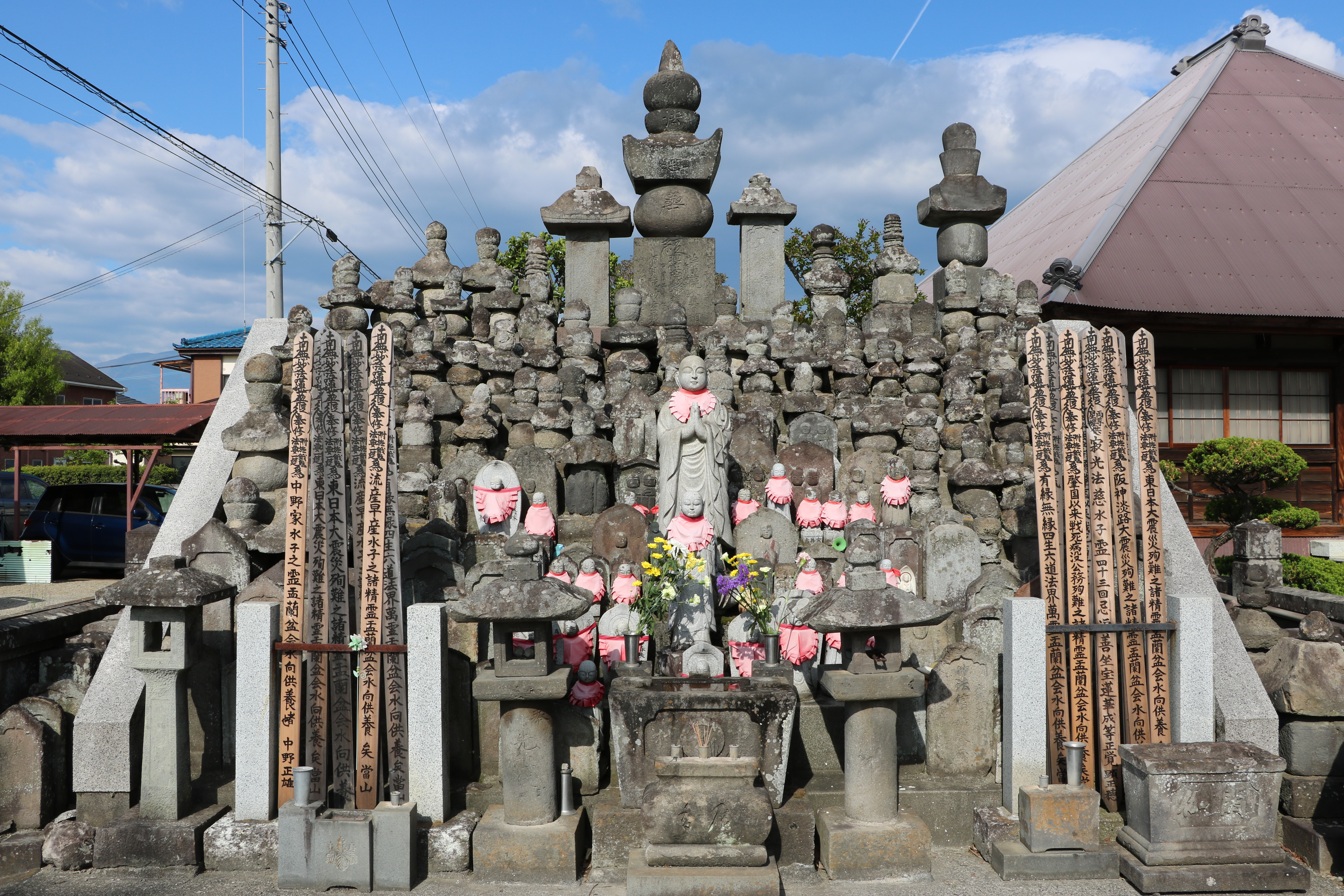 Ryuhon-ji temple (Kofu city), Jizo and stone Buddha group